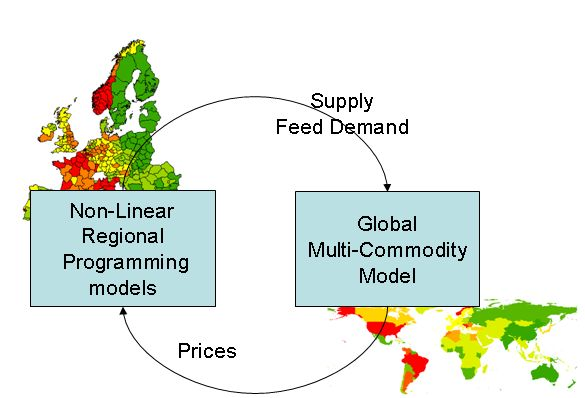 Overview on the CAPRI economic model.